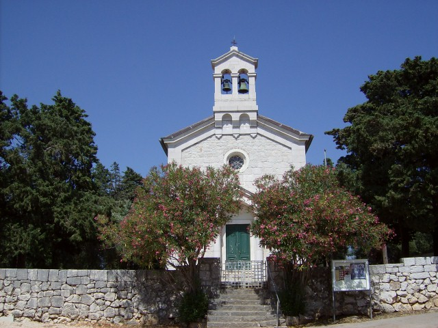 Church in the city of Lun on the island of Pag, Croatia, Europe